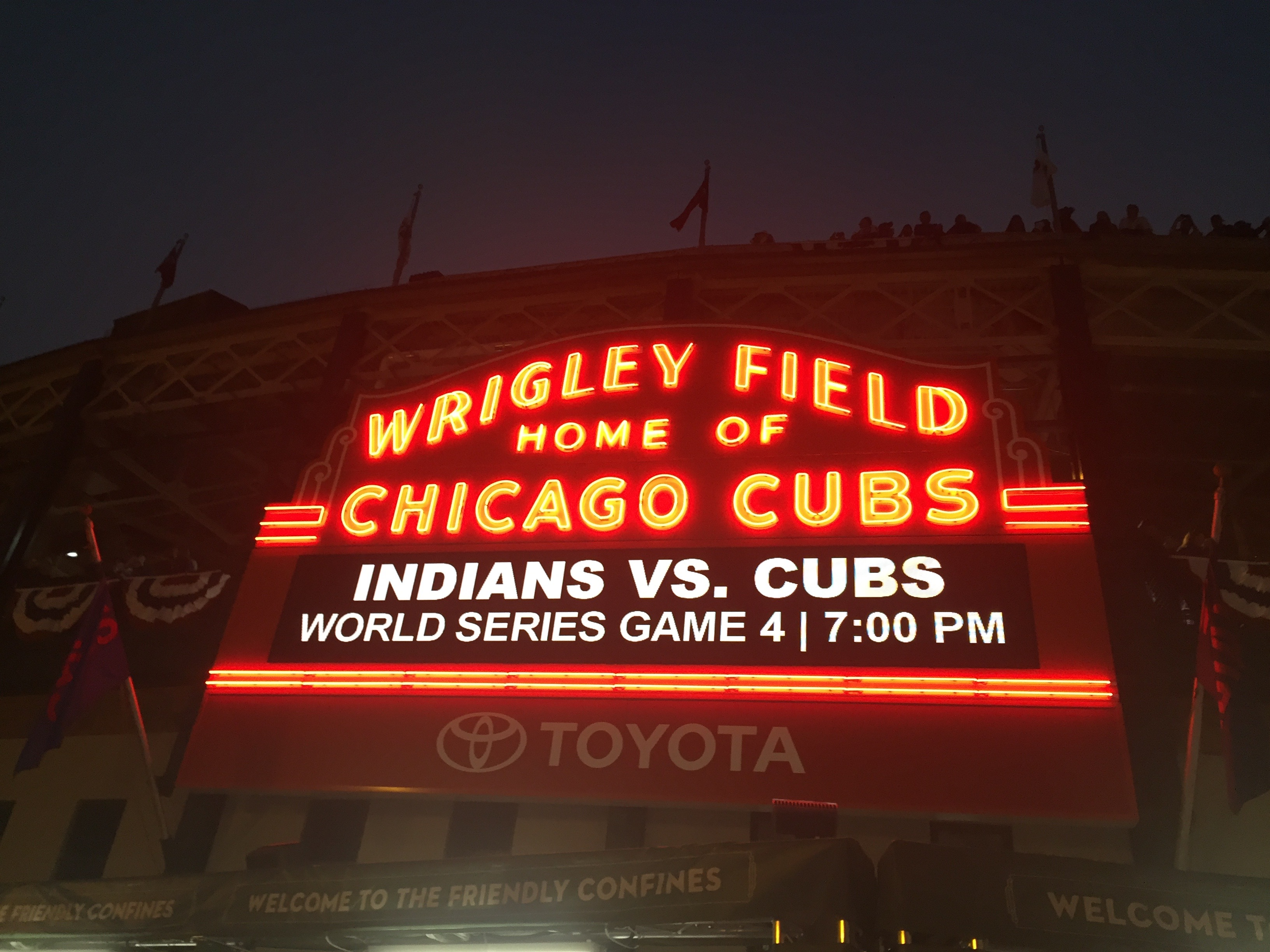 Wrigley Field marquee during Game 4 of the 2016 World Series